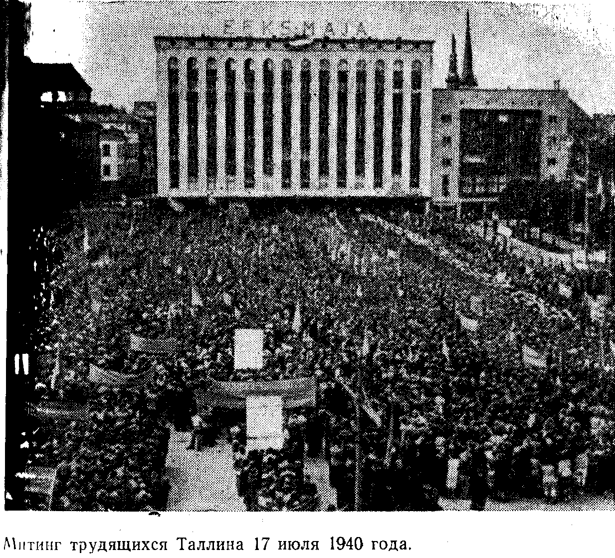 The meeting on the Freedom Square at the Tallinn, 07/17/1940. The scan of the illustration in "From the history of the Estonian SSR", M.Lohmus, K.Siilivask, Tallinn, Valgus, 1978.